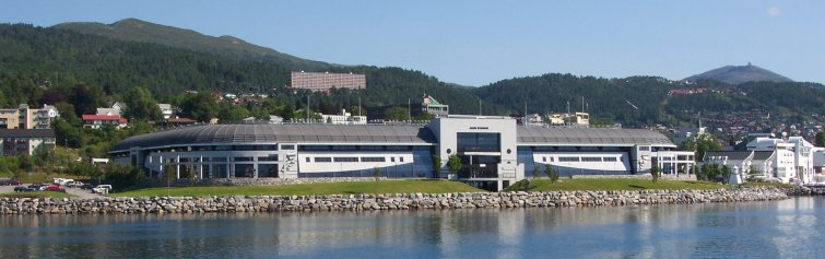 Picture of Aker stadion in Molde, taken from a passing ferry in July 2006.